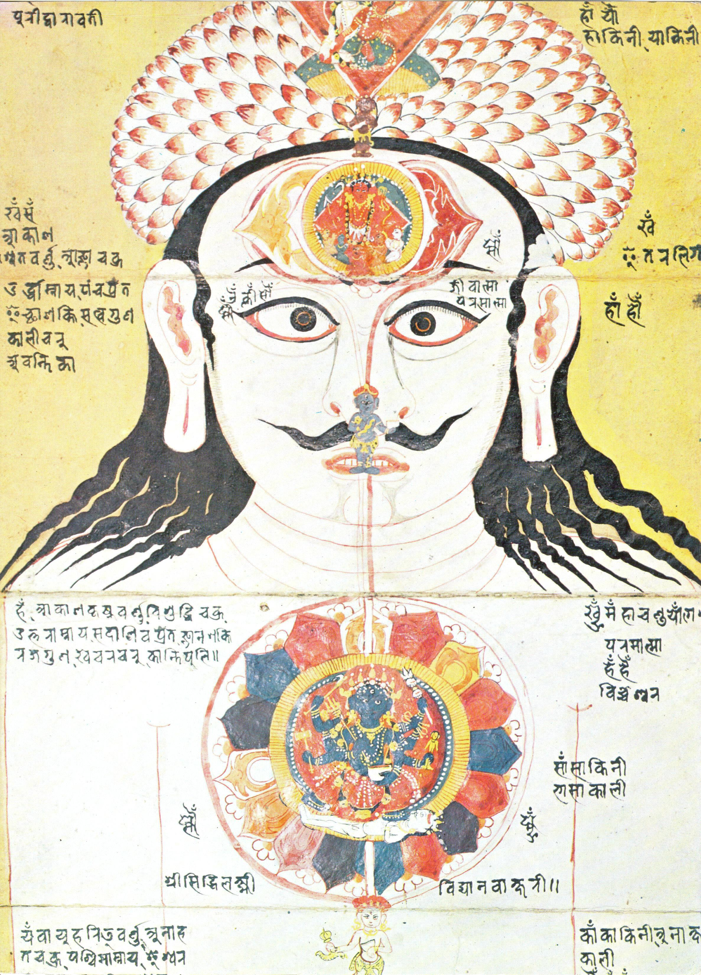 Crown, Brow, Throat Chakras, Rajasthan 18th Century